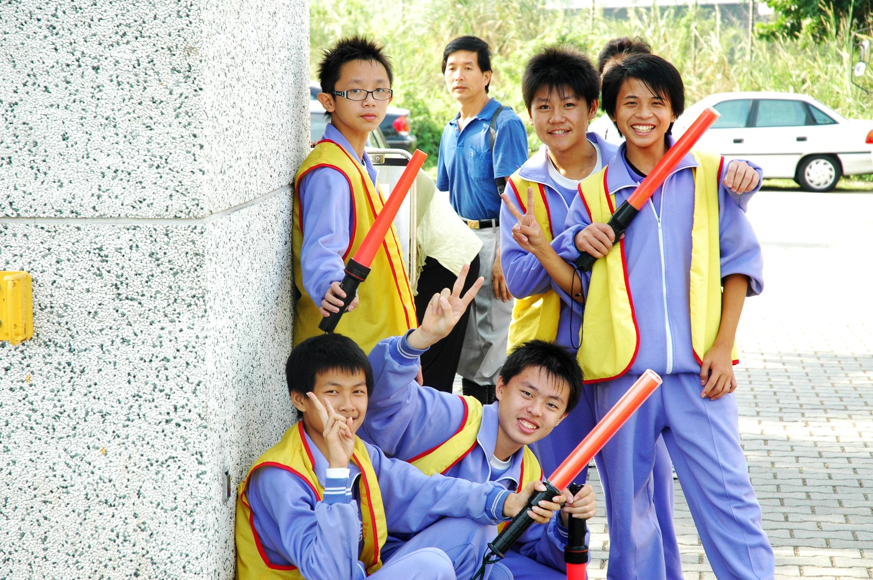 Five school boys of Da Ji Junior High School in Chiayi County, Taiwan.